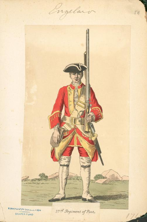 An image of the uniform of a private of the 37th Regiment of Foot, in the British Army in 1742. The image seems to be from the 1742 Cloathing Book. The following is information for this image found on the NYPL website. Digital Image ID: 477298 and Digital Record ID: 293381.